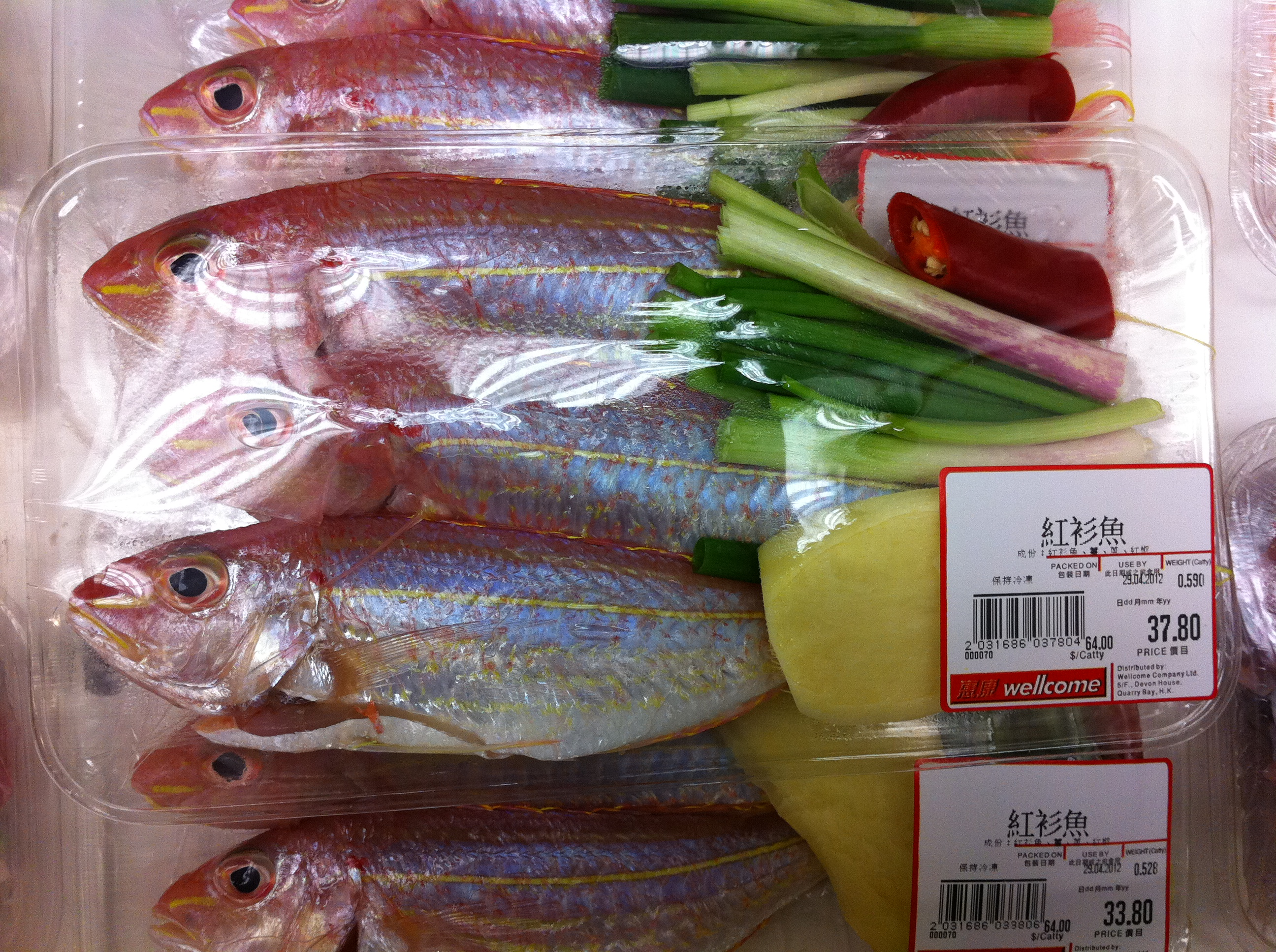 Fish products in Hong Kong